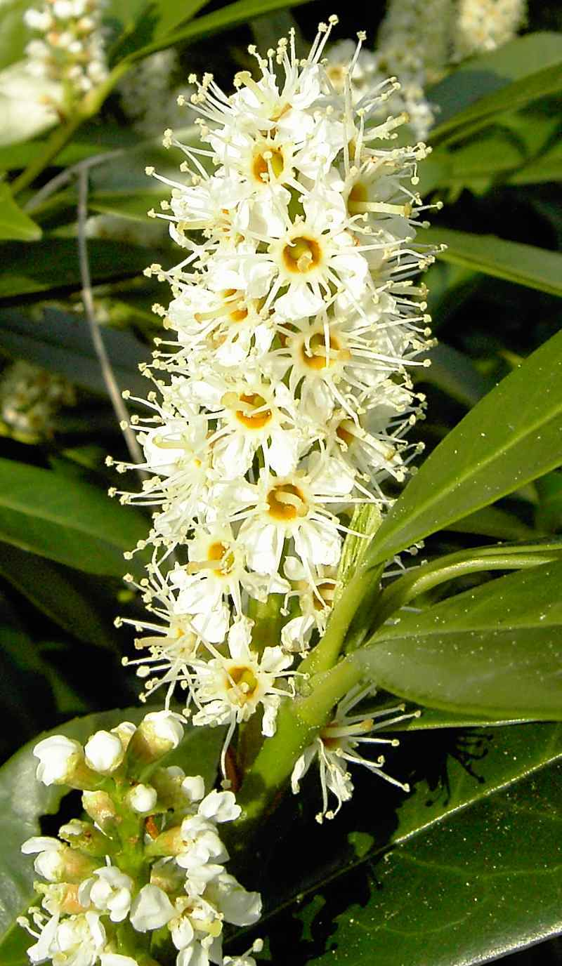 Prunus laurocerasus